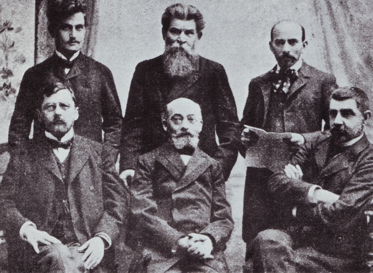 First comitee of the Warsaw Esperanto Society (Varsovia Societo Esperantista), f. 1888. From the left, above: Kabe, Brzestowski, Belmont, sitting: Grabowski, Zamenhof, Zakrzewski